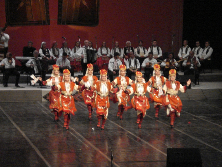 Tanec (Танец) the award winning folklore ensemble from Skopje, Macedonia.